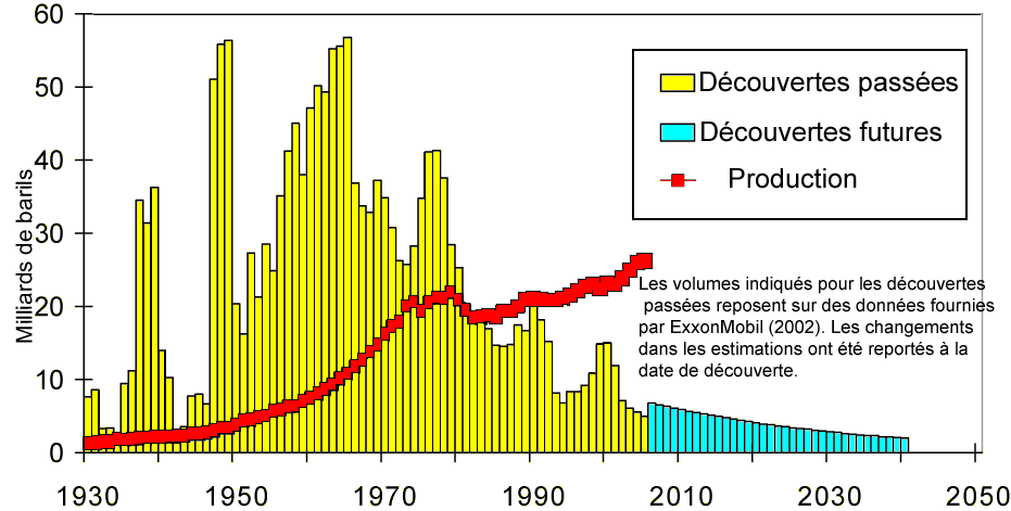 World Discoveries of oil past and future